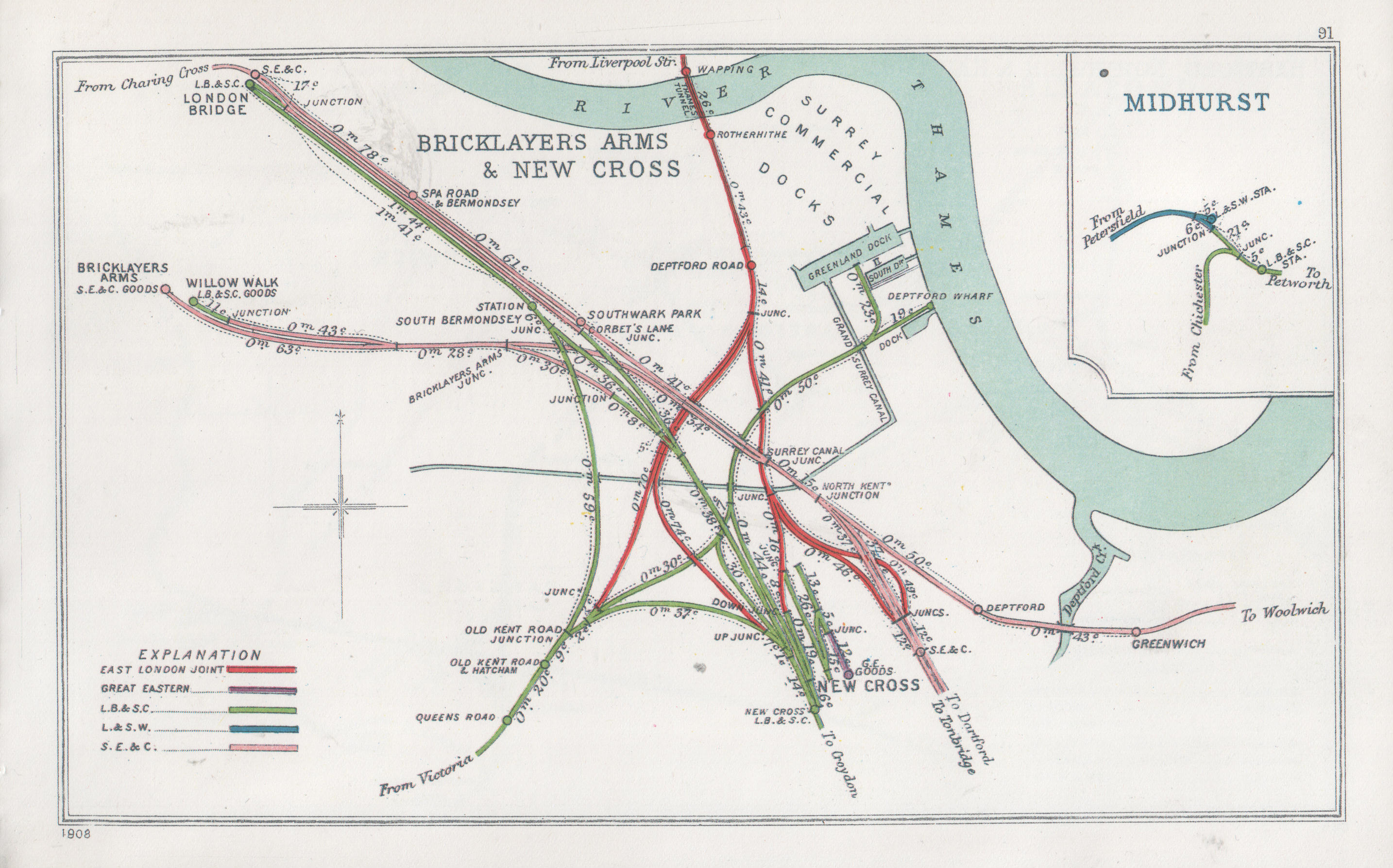 Pre Grouping railway junction around Bricklayers Arms & New Cross in S.E. London. Also juctions at Midhurst, West Sussex.